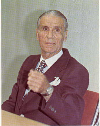 Sheikh Pierre Gemayel